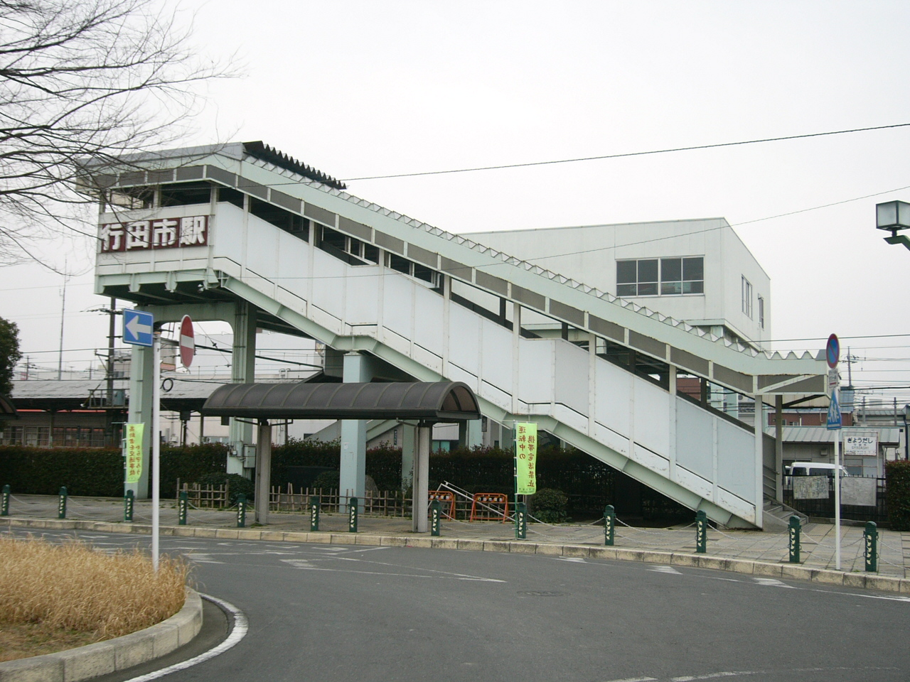 The north entrance to Gyodashi Station on the Chichibu Main Line in Saitama Prefecture, Japan